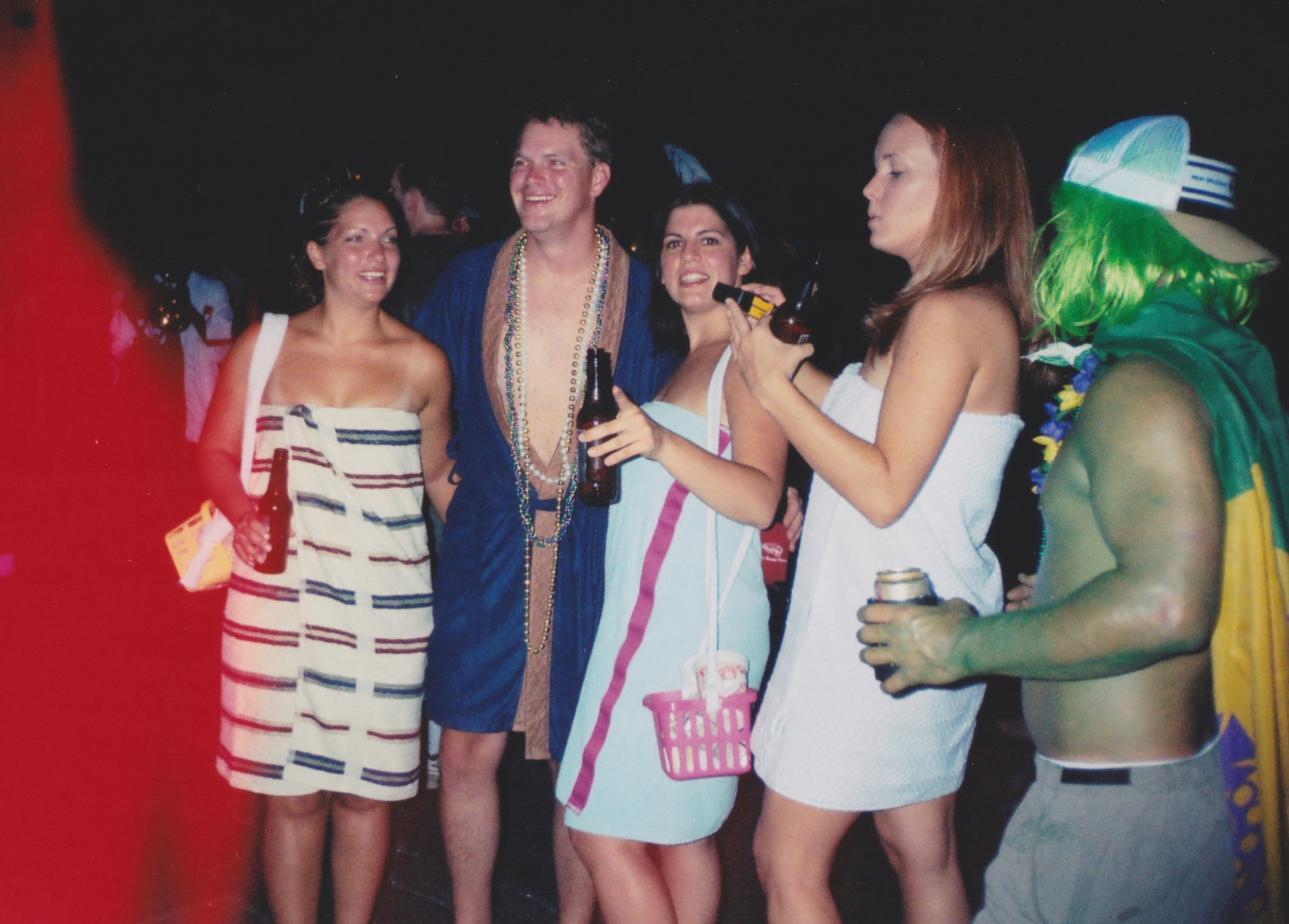 Krewe of OAK, New Orleans. Revelers in towels and robes; musicians in background.